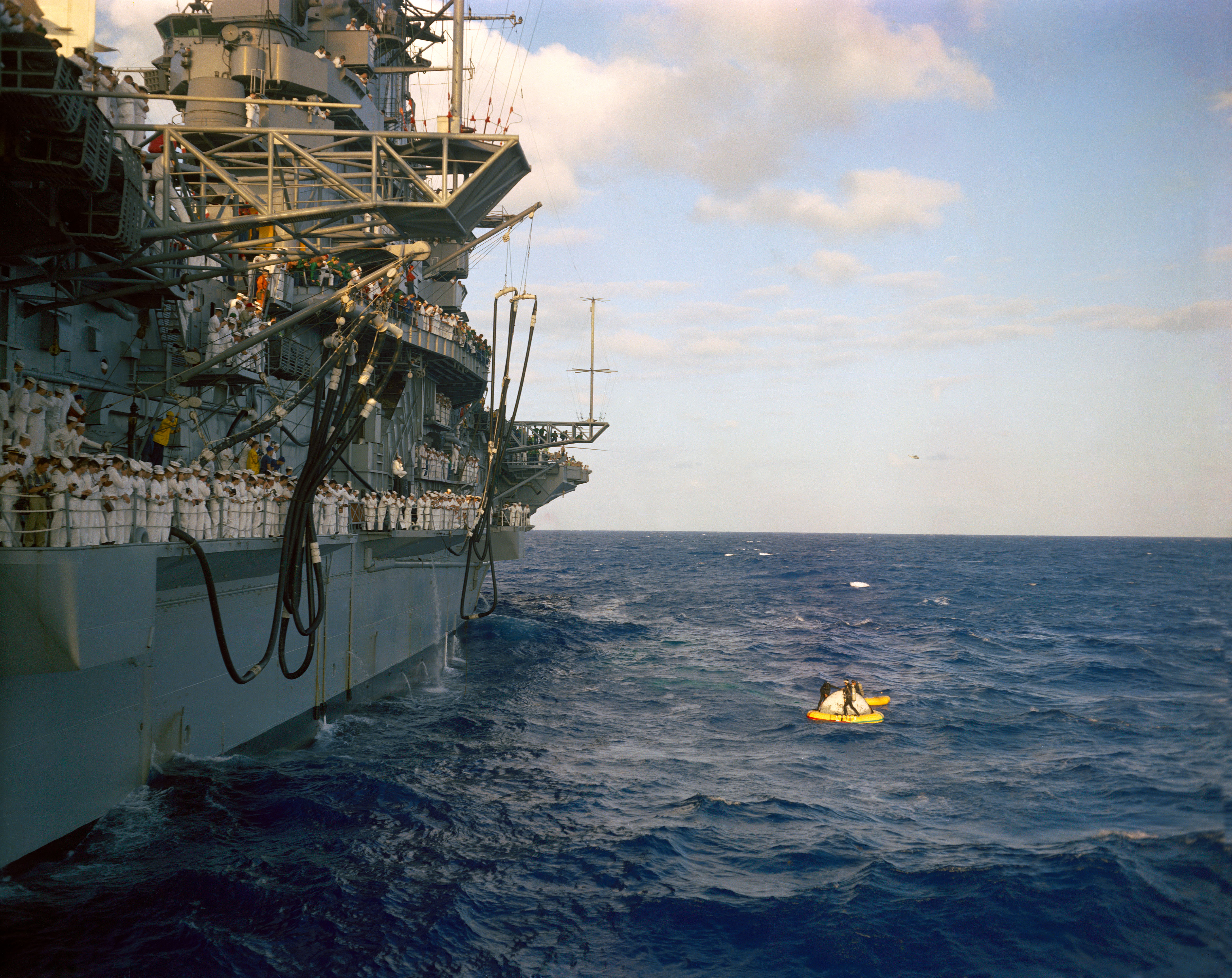 The U.S. Navy aircraft carrier USS Intrepid (CVS-11) pulls up alongside the Gemini 3 spacecraft during recovery operations following the successful Gemini-Titan 3 flight. Navy swimmers stand on the spacecraft's flotation collar waiting to hook a hoist line to the Gemini 3, on 23 March 1965. Astronauts Virgil Grissom and John Young made history's first controlled re-entry into the earth's atmosphere.